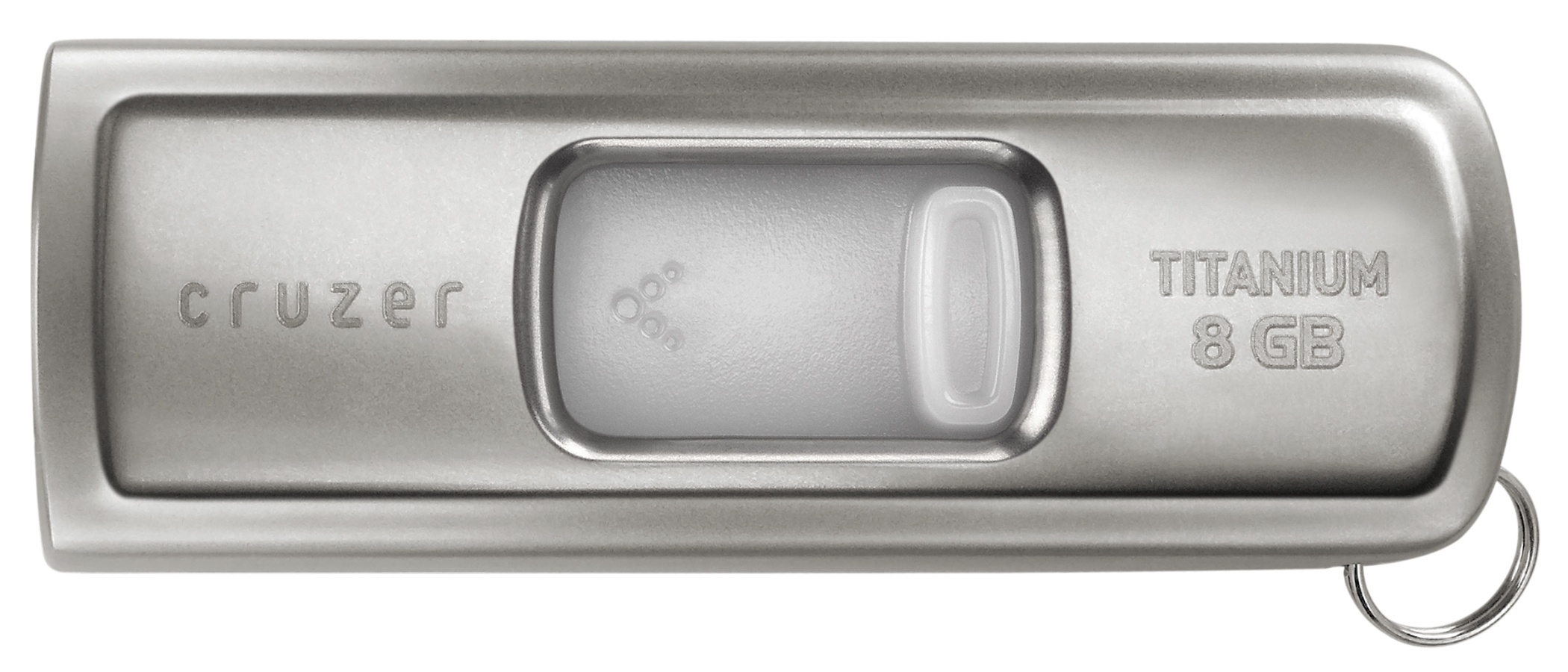 USB flash drive manufactured by SanDisk